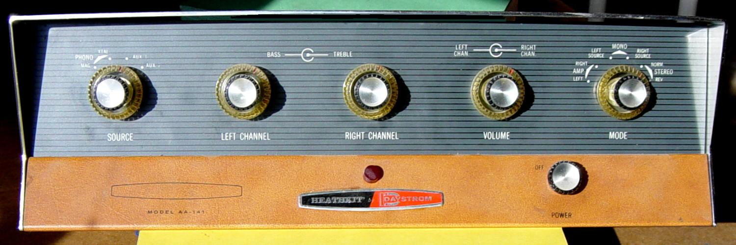 Heathkit AA141 stereo preamplifier 1972